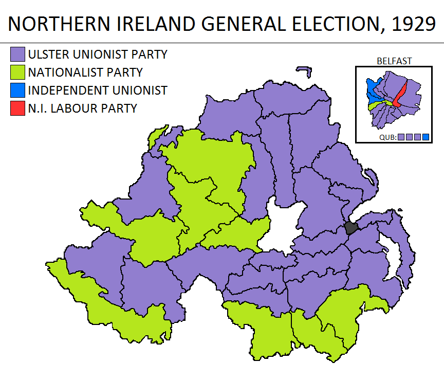 Map showing result of the 1929 Northern Ireland general election.